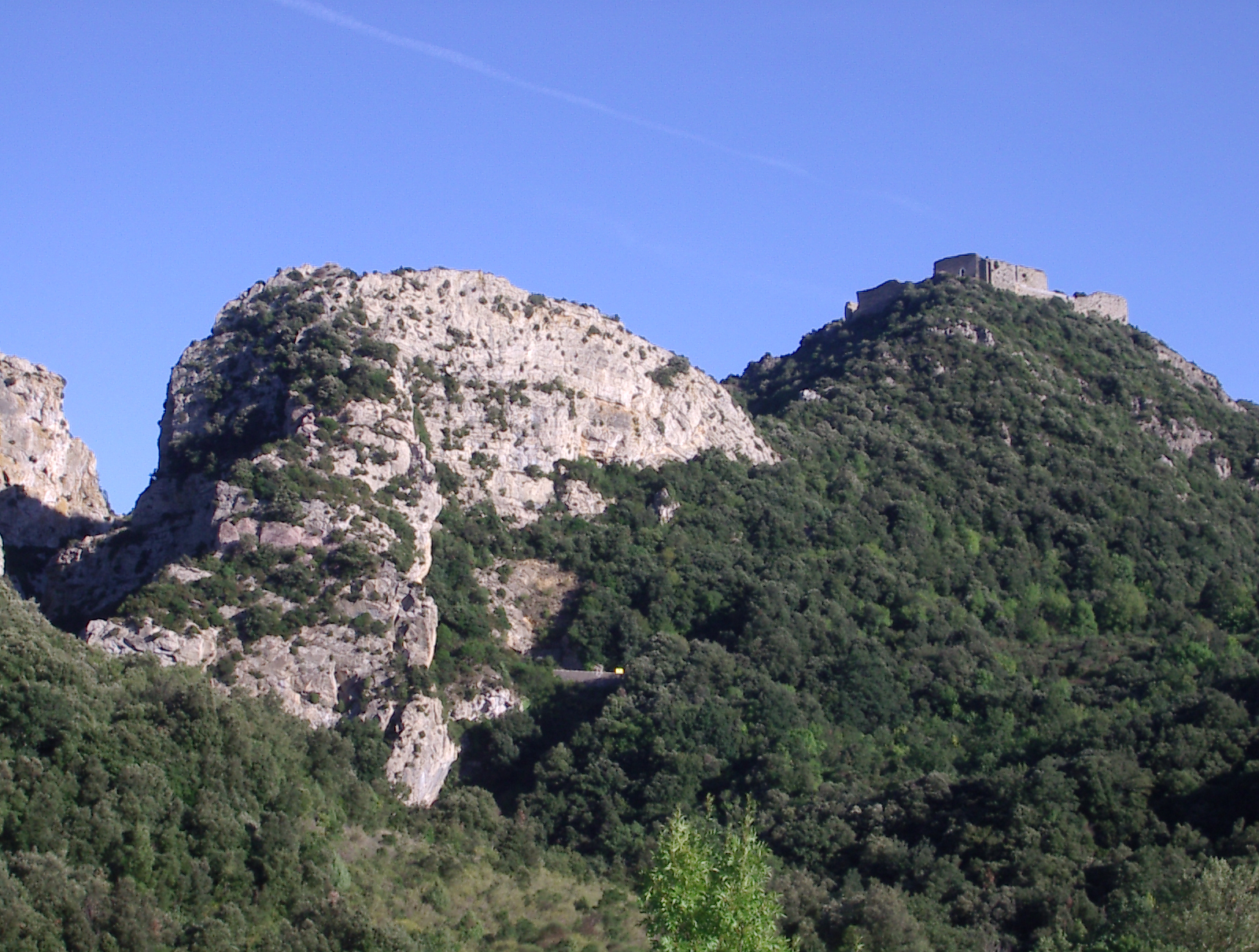 View of the Castle of Termes (Aude, Corbières), from the west. The gorges of the Termenet are at the left side.